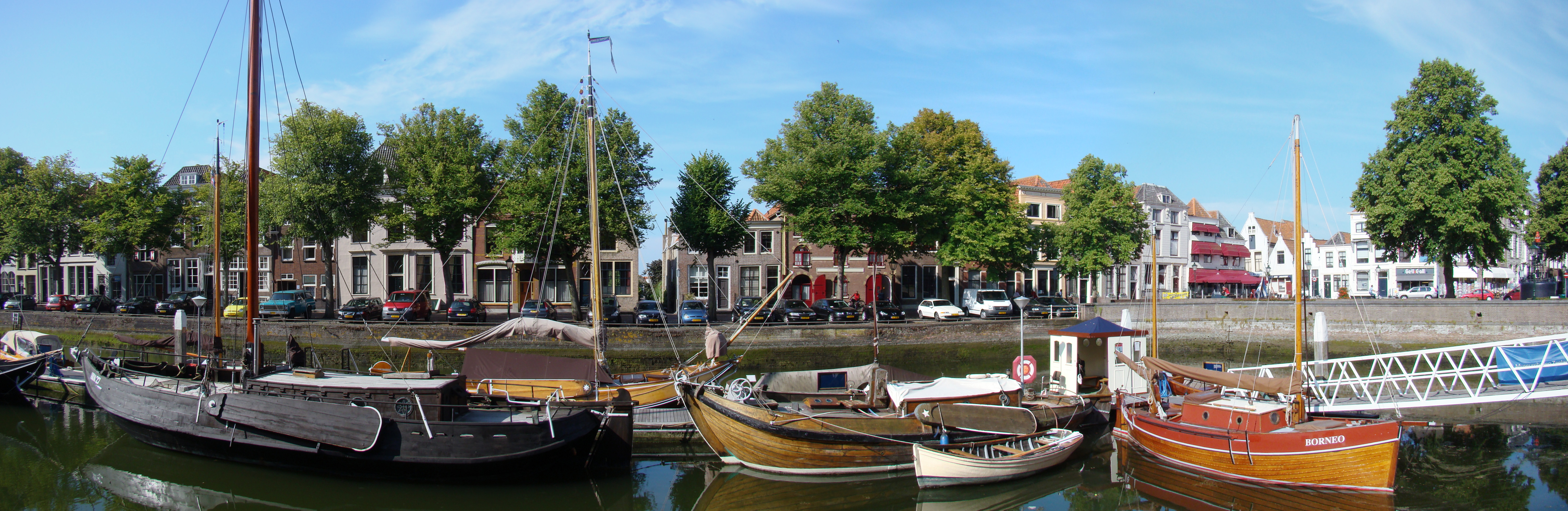 Impressions of Zierikzee Netherlands